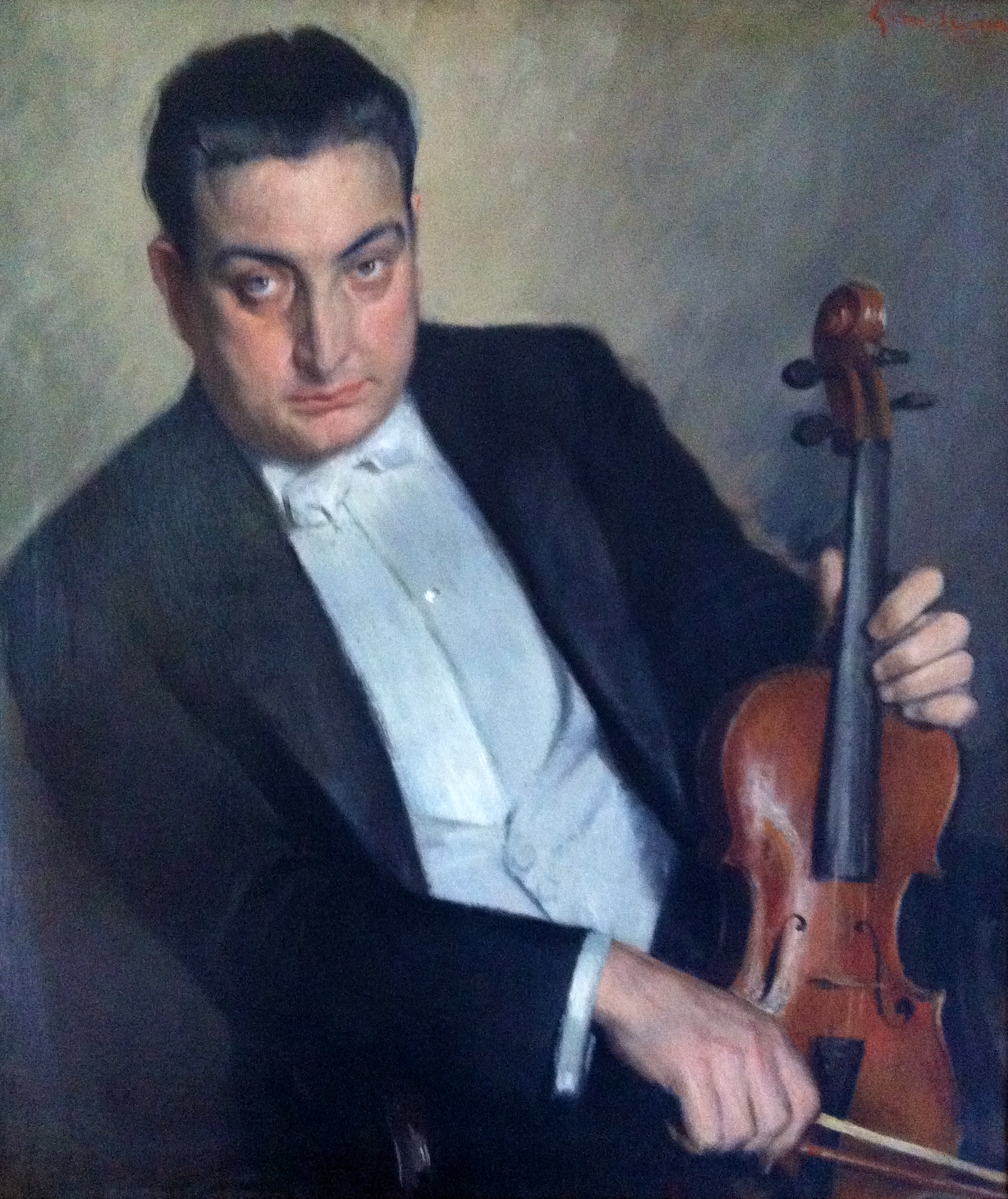 ettore bonelli